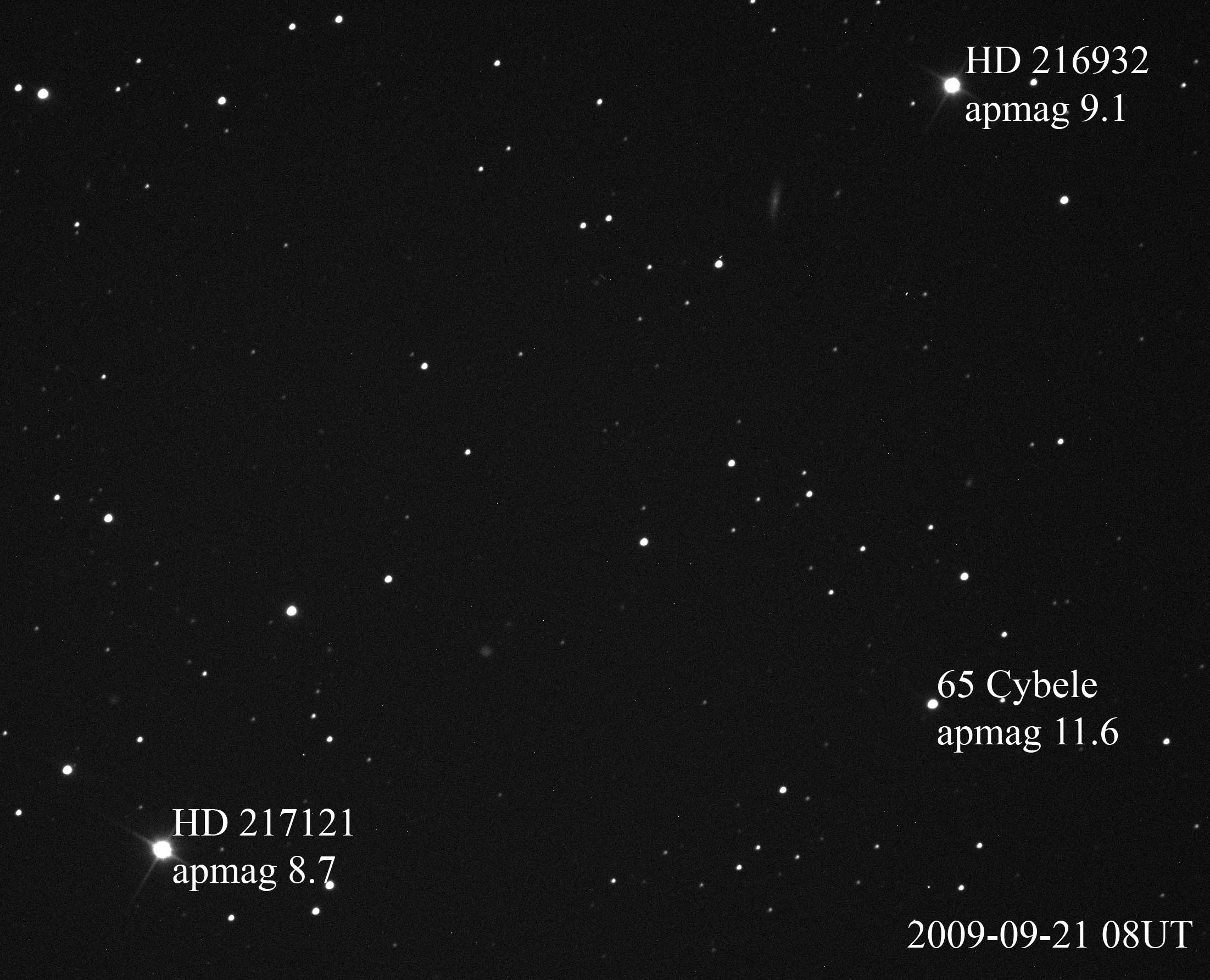 The apparent magnitude of large asteroid 65 Cybele (apmag 11.6) and stars HD 217121 (apmag 8.7) and HD 216932 (apmag 9.1). The two bright stars would be near the limit of typical 50mm binoculars. Also visible towards the upper right are the galaxies PGC194570 and PGC1016451.